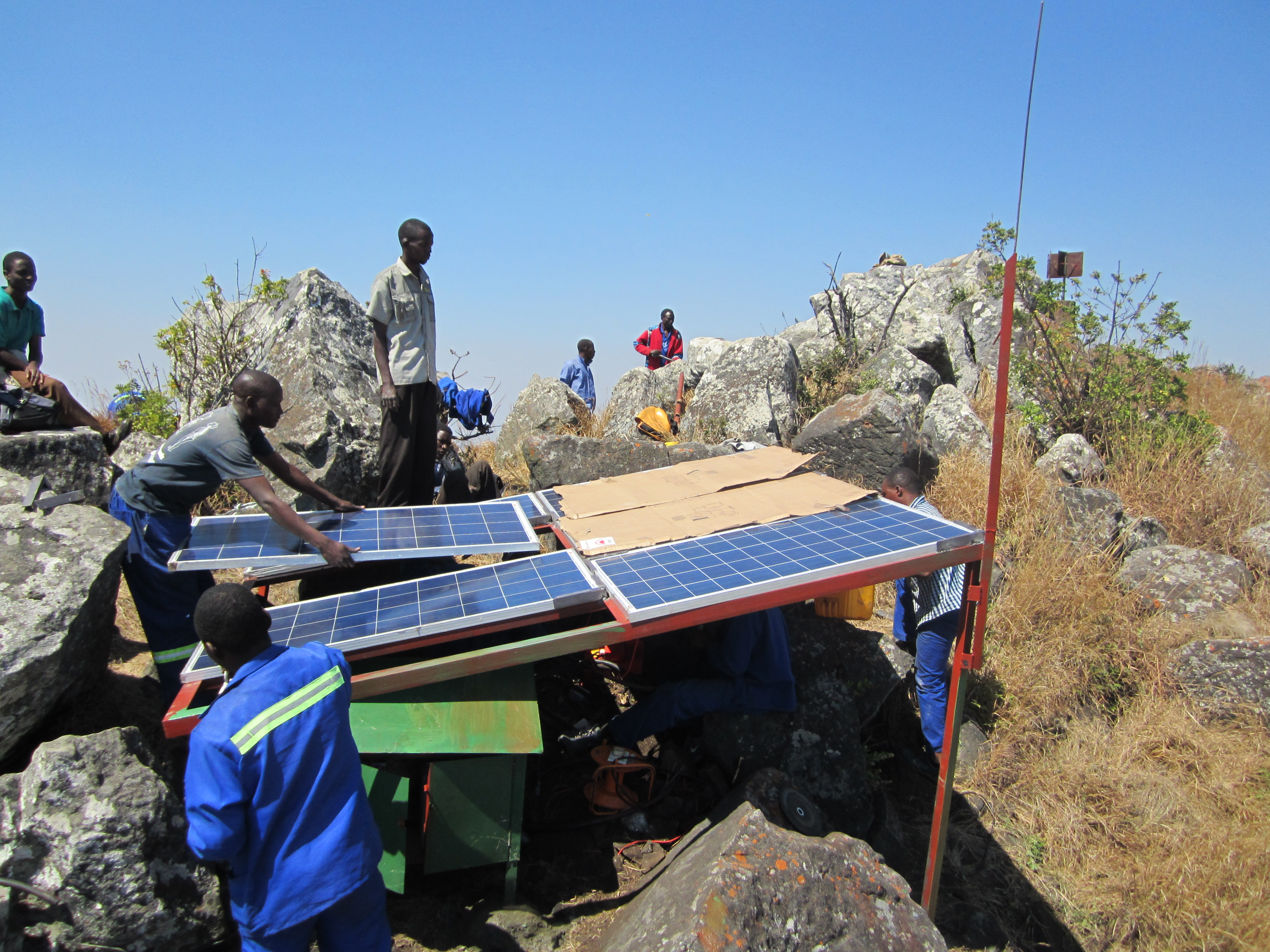 This is an image of "African people at work" from Malawi